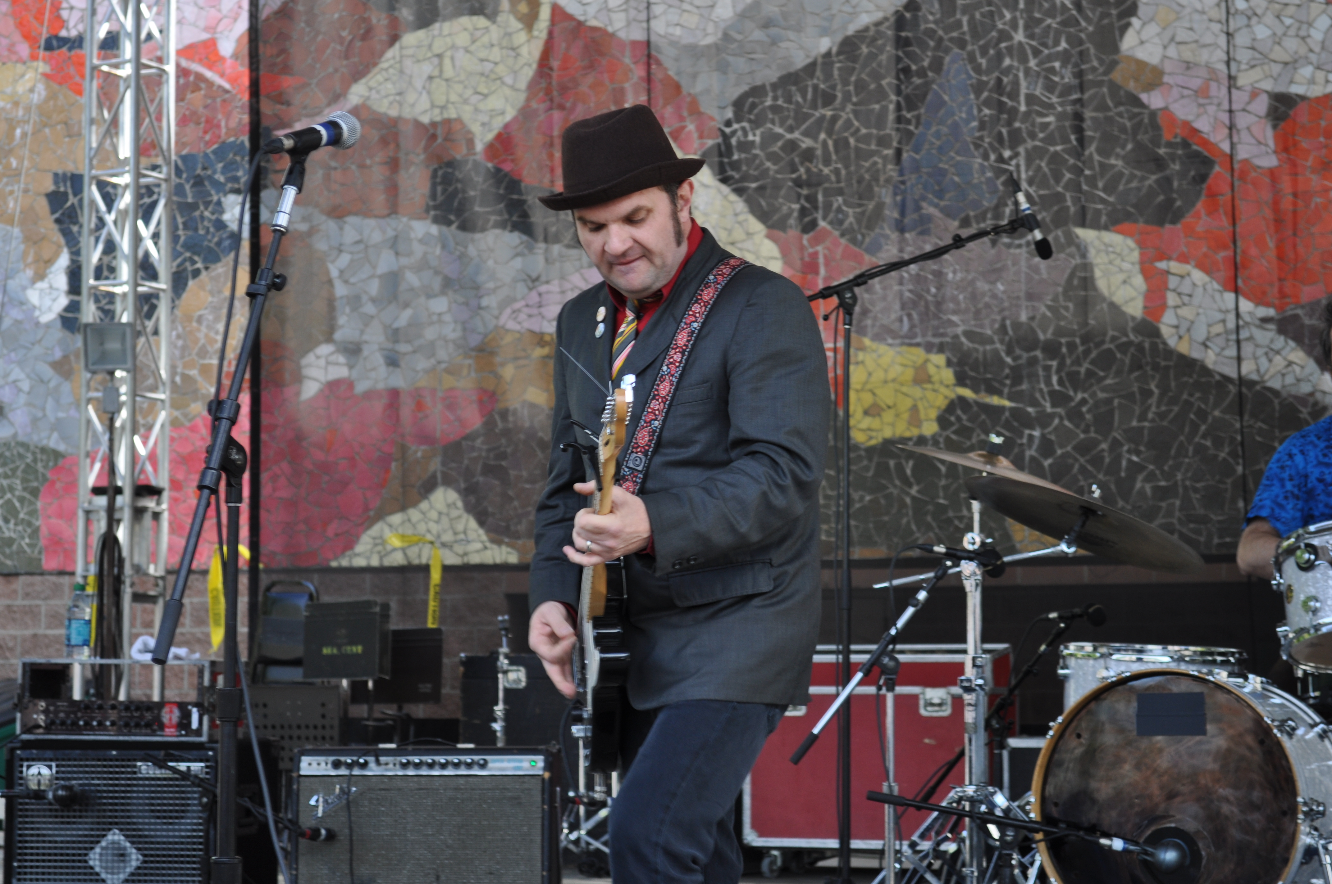 The Tripwires play at the Mural Amphitheatre during Bumbershoot, Seattle Center, Seattle, Washington.